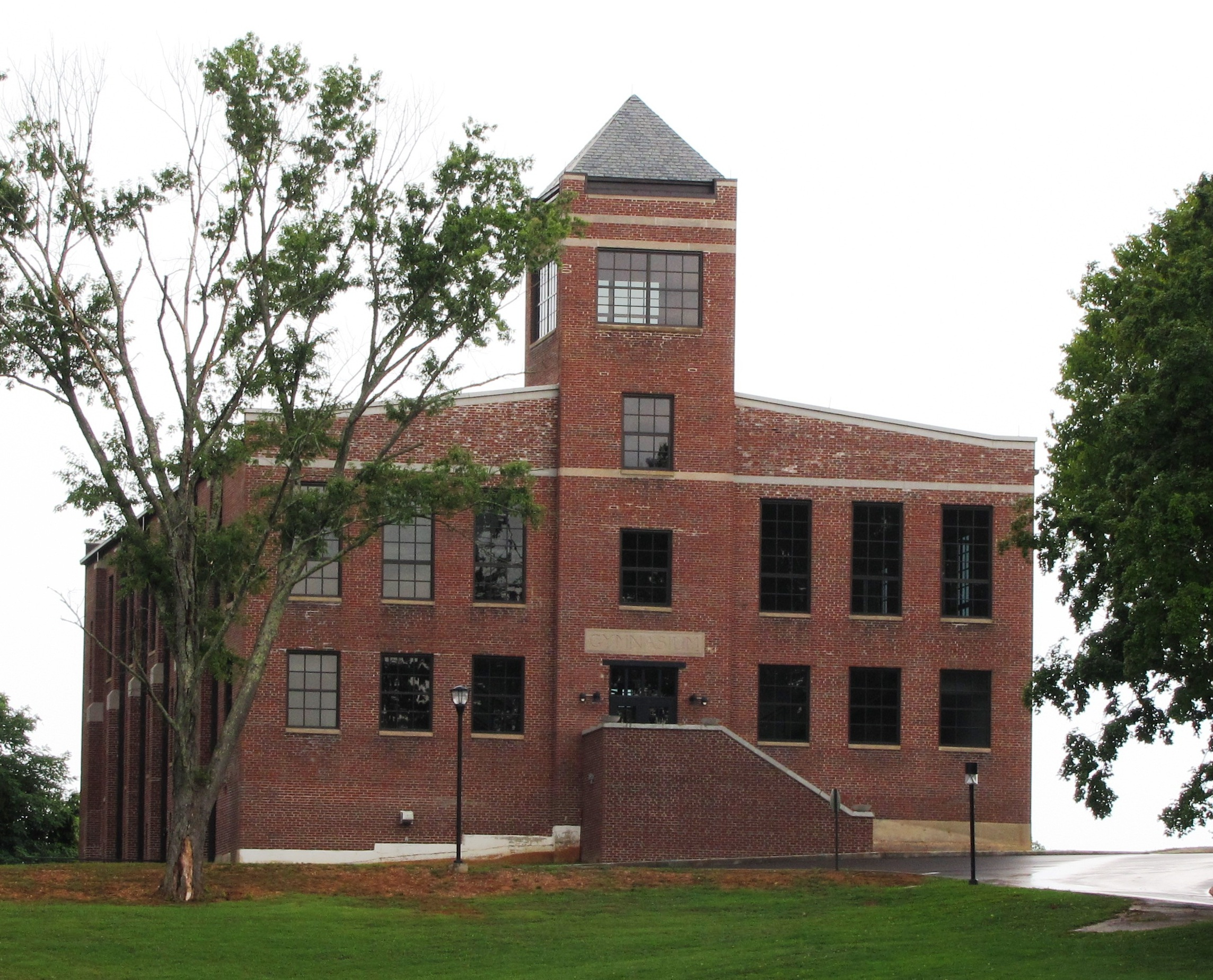 Gymnasium at the Tennessee School for the Deaf in Knoxville, Tennessee, USA. Completed in 1928, this building is now listed as a contributing property within the NRHP-listed Tennessee School for the Deaf Historic District.